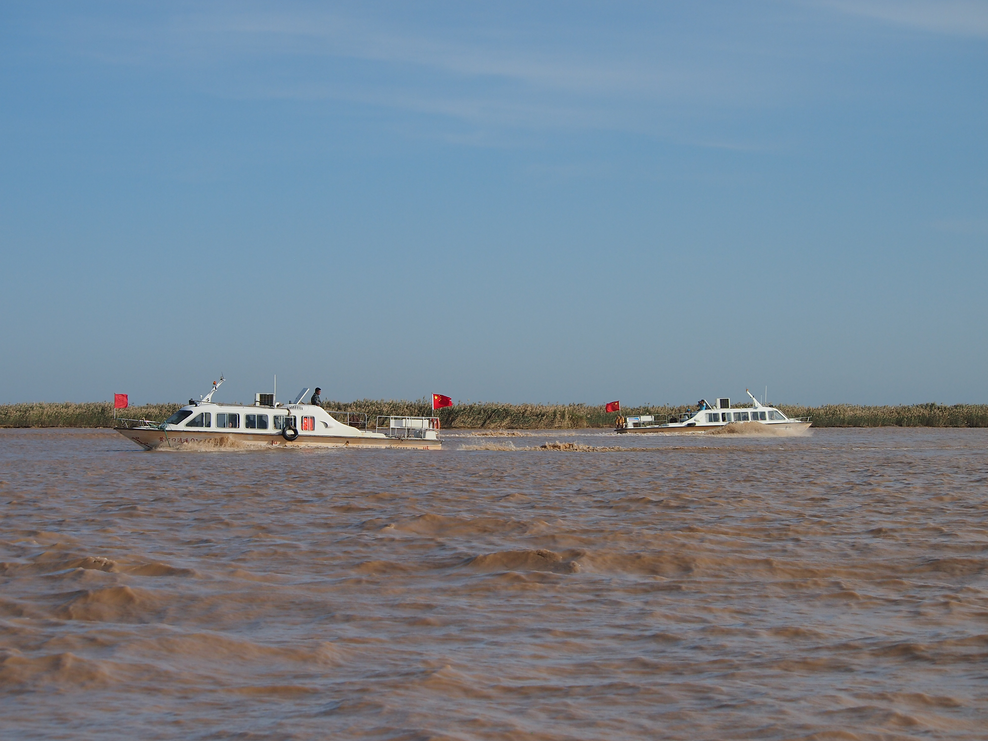 黄河游船 - Tourist Boats on Yellow River - 2012.10